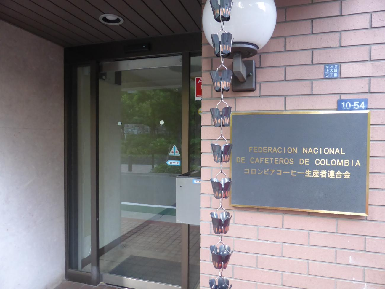 Office of the National Federation of Coffee Growers of Colombia, which is located in the Colombian Embassy in Tokyo, Japan.